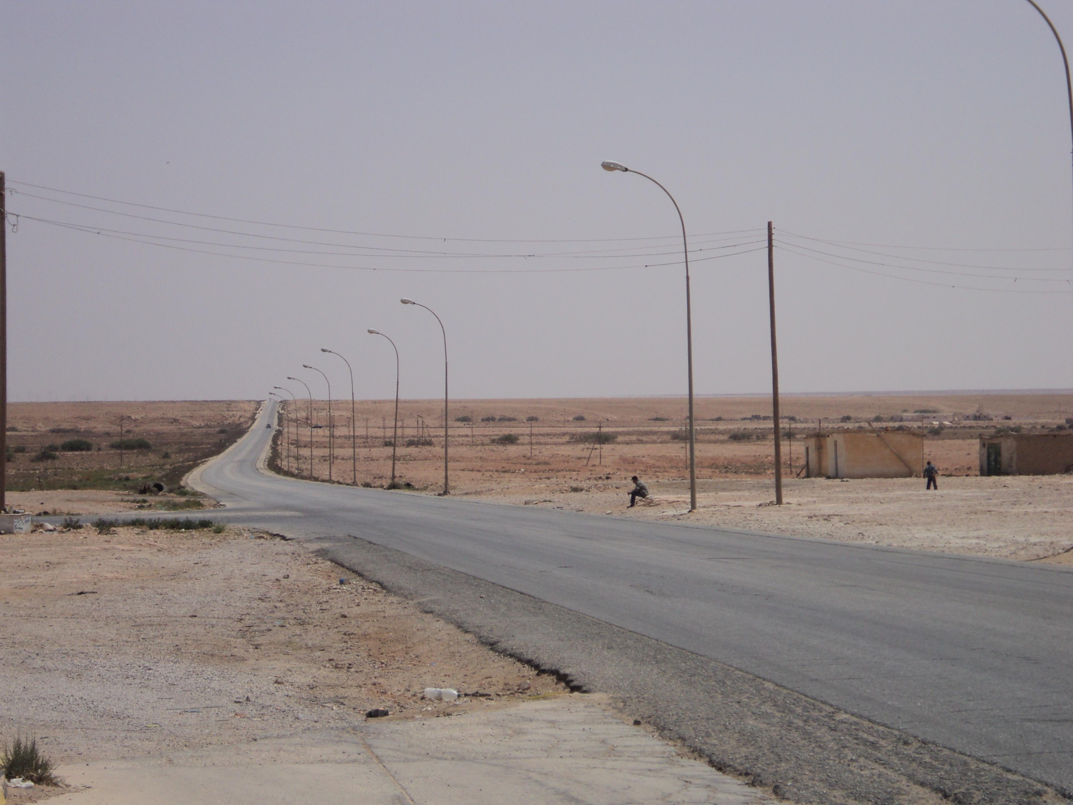 A view of Charruba-Timimi in Libya.